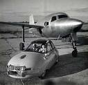 Panhard Dynavia